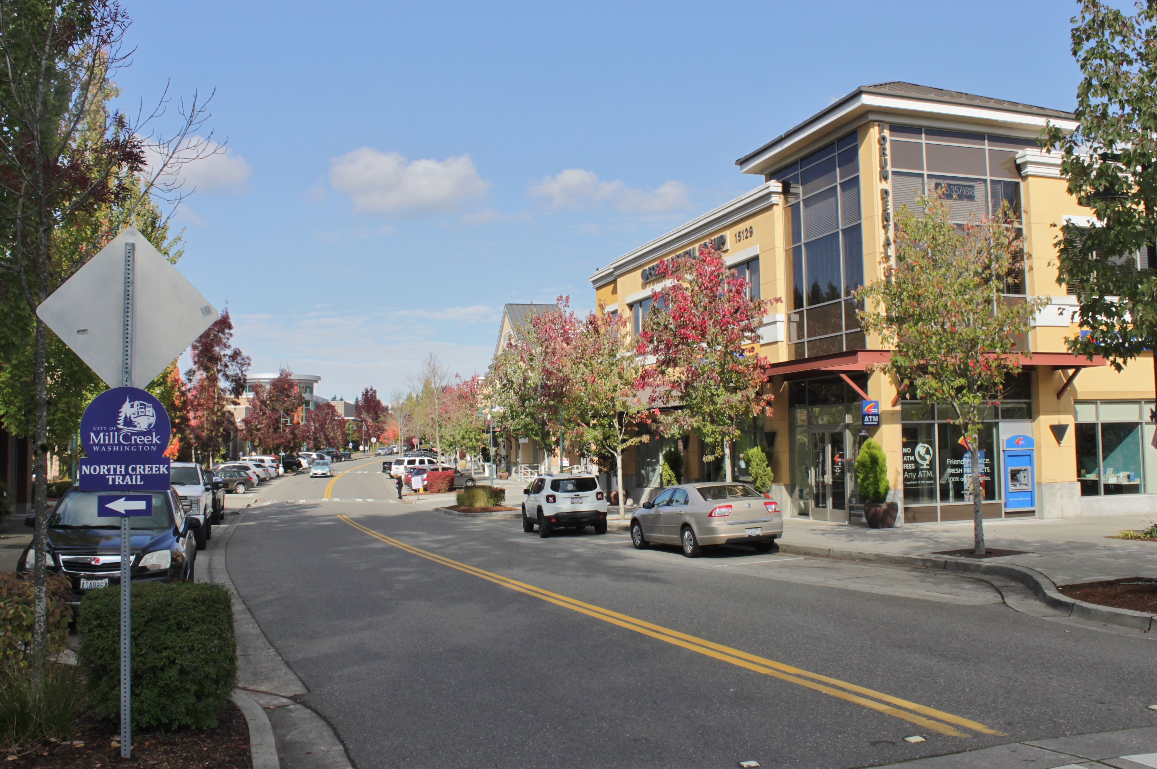 Looking north on Main Street in the Mill Creek Town Center, a shopping district in Mill Creek, Washington.